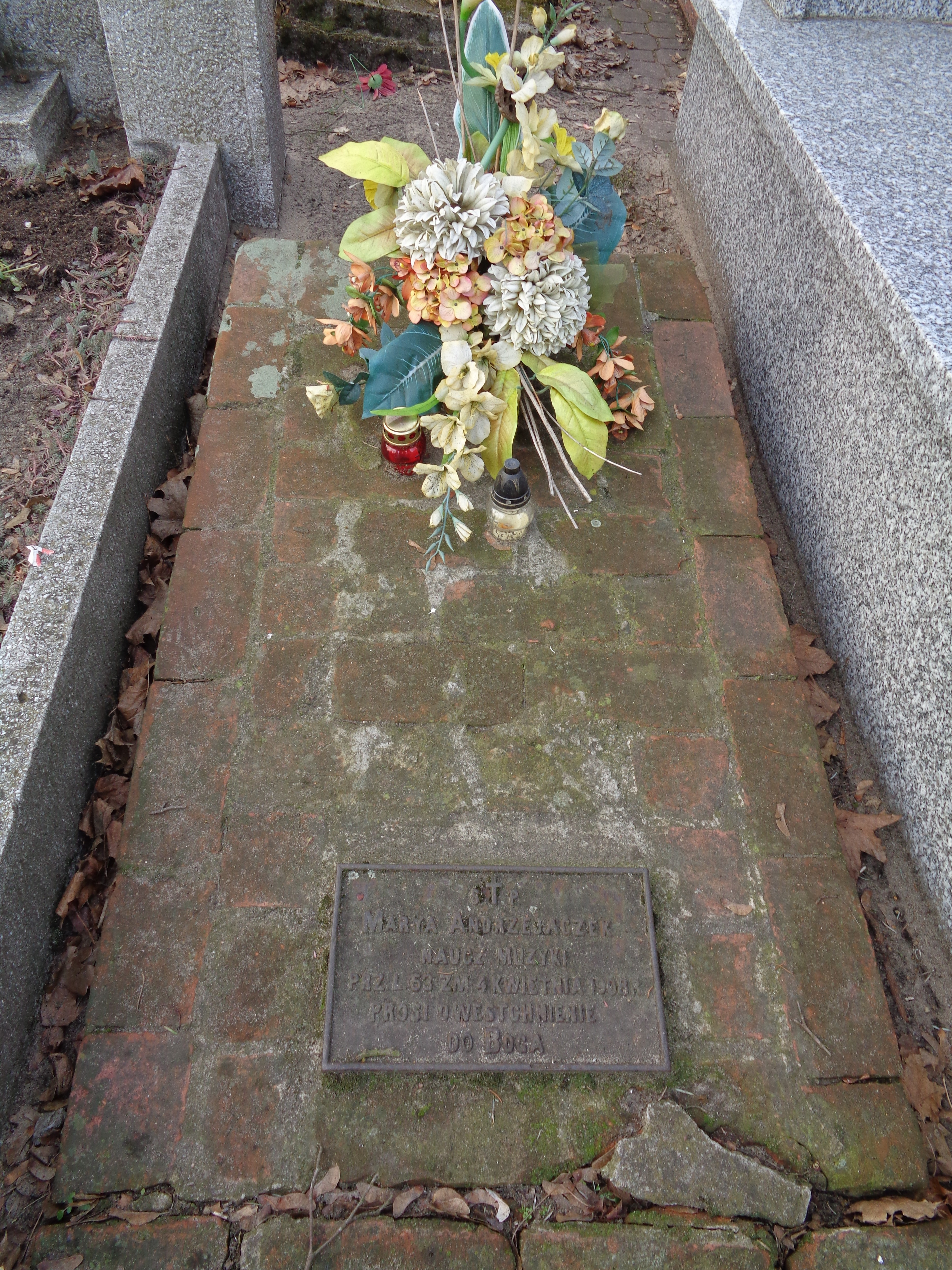 Monumental grave of music teacher Marya Andrzejaczek on Communal Cemetery in Włocławek, died at 4th of april 1908 year at age of 53.